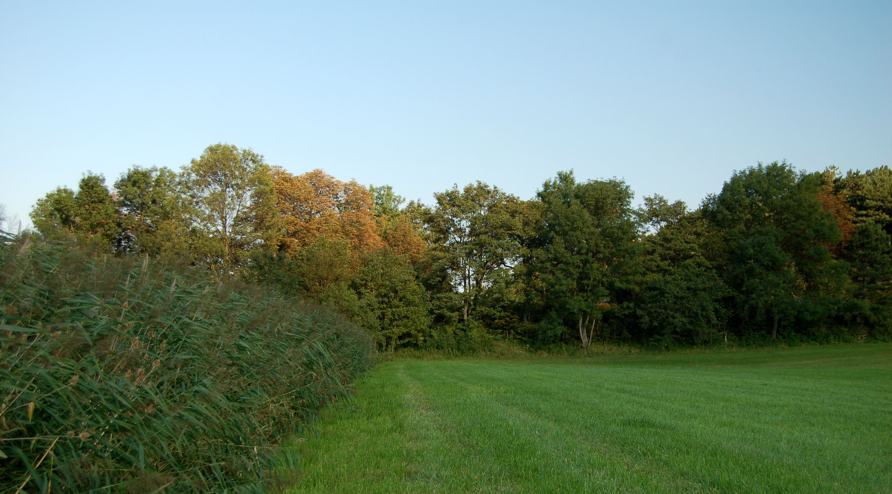 The Thomb, a dam from the late medivial age, in St. Lorenzen am Steinfeld, municipality Ternitz, Lower Austria. Left there is the reed grass watered by the St. Lorenzer Bach.